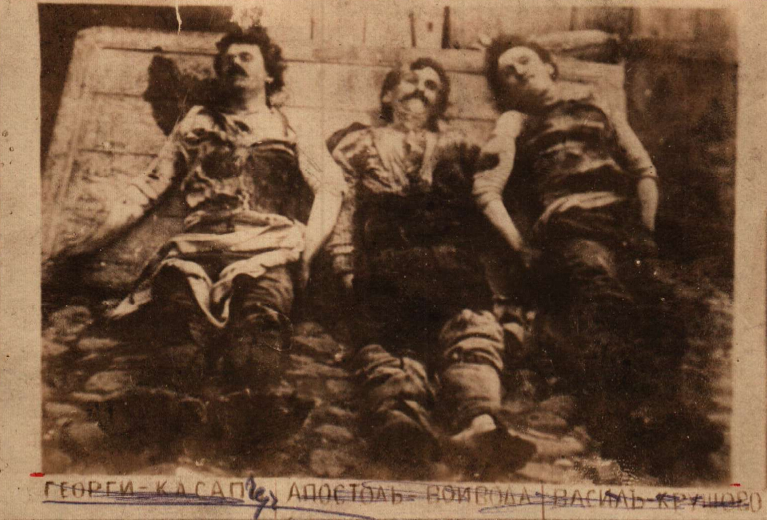 Dead bodies of Apostol Petkov, Georgi Kasapcheto and Vasil Pufkata